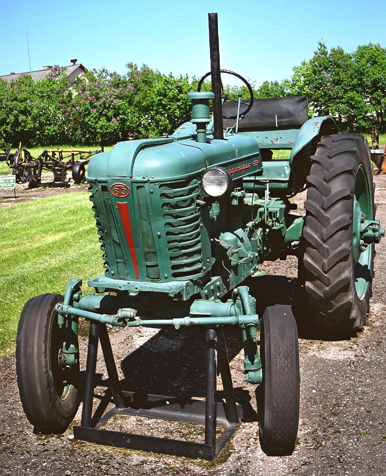 soviet tractor T-28 in a museum in Estonia.